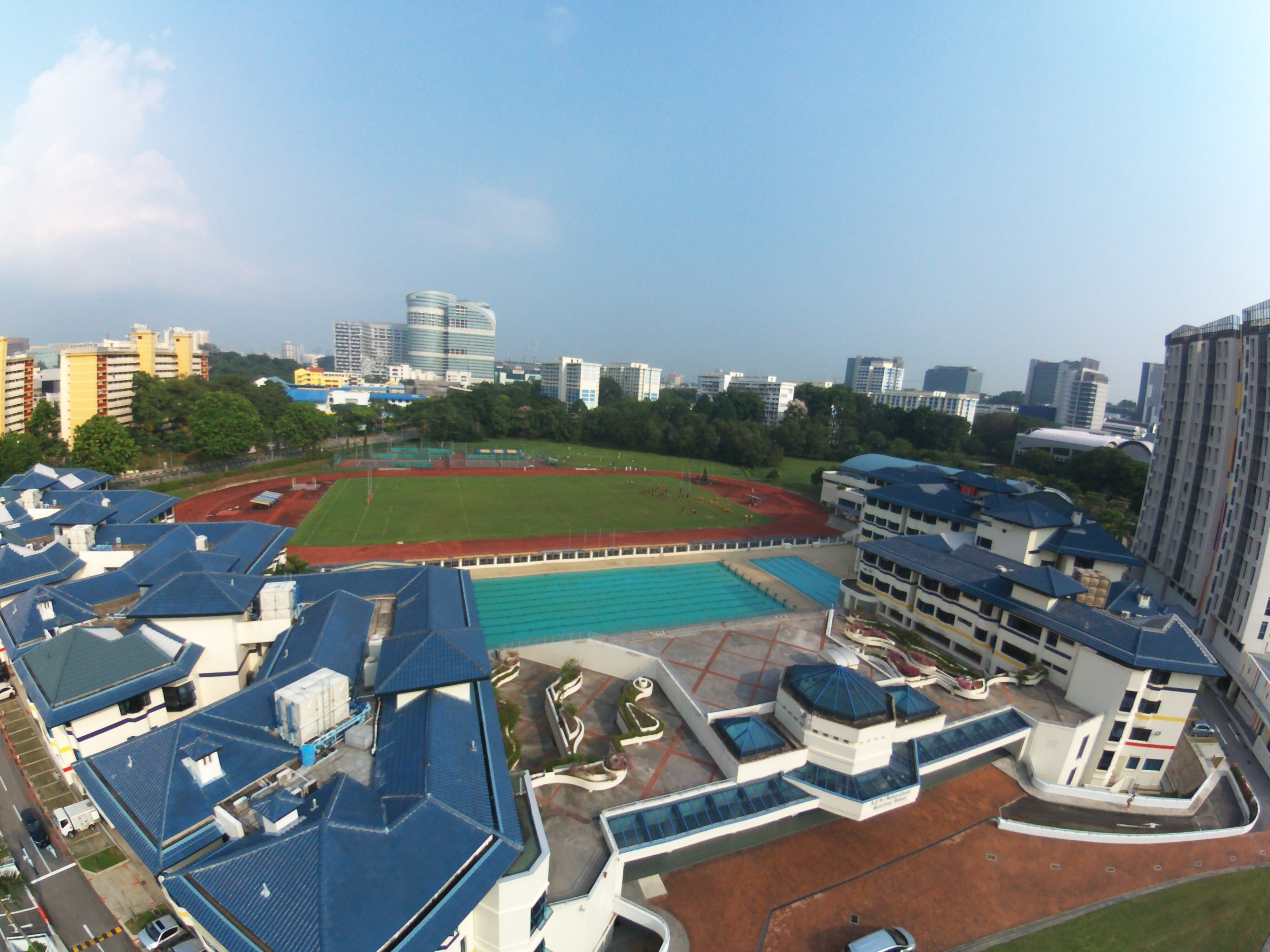 400m Track, Field and Swimming Pool